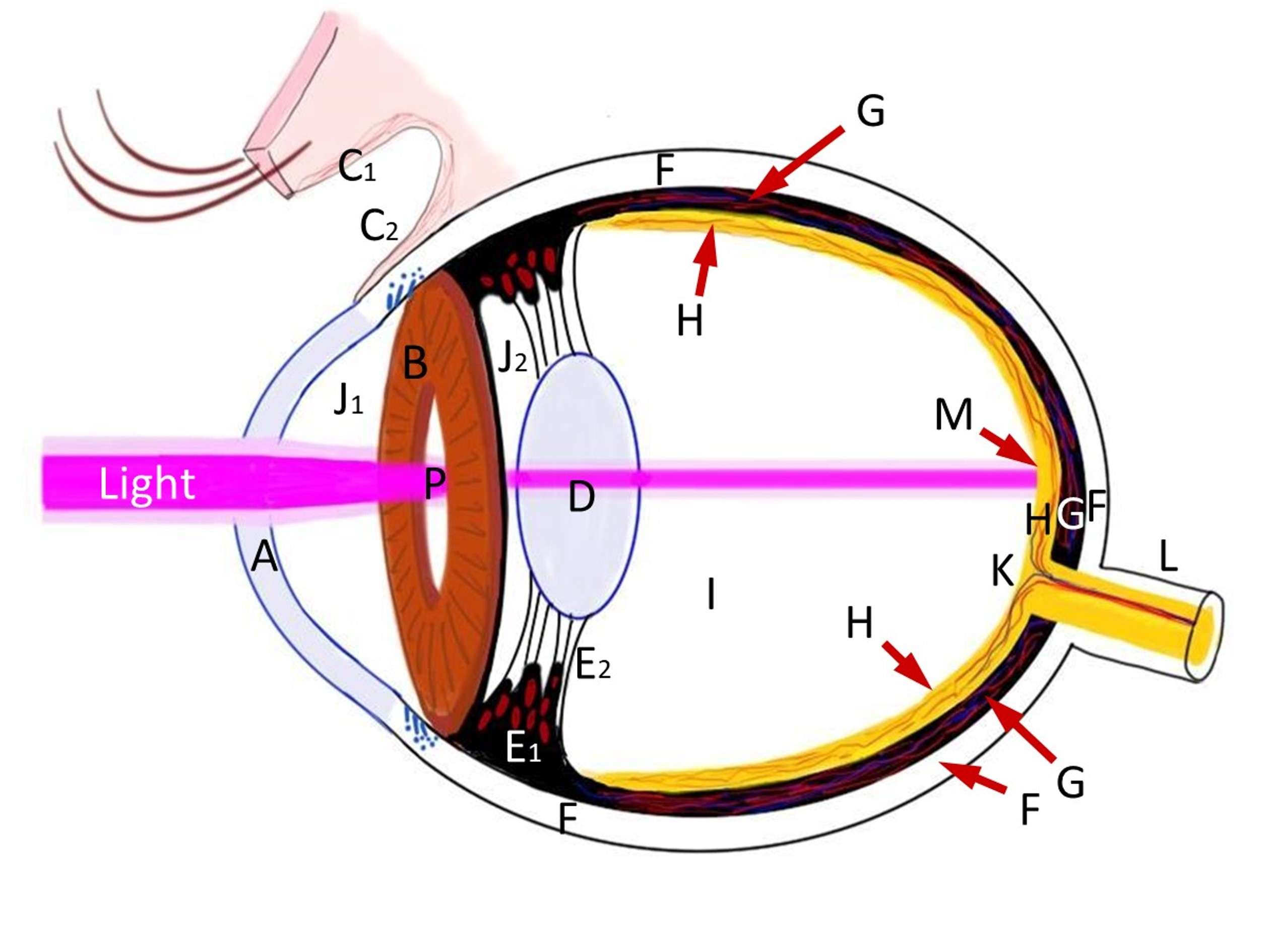 This image is a drawing of the human eye for teaching purposes. It is labeled with letters to help students identify important structures of the eye. Other versions are available with labels and an answer key.